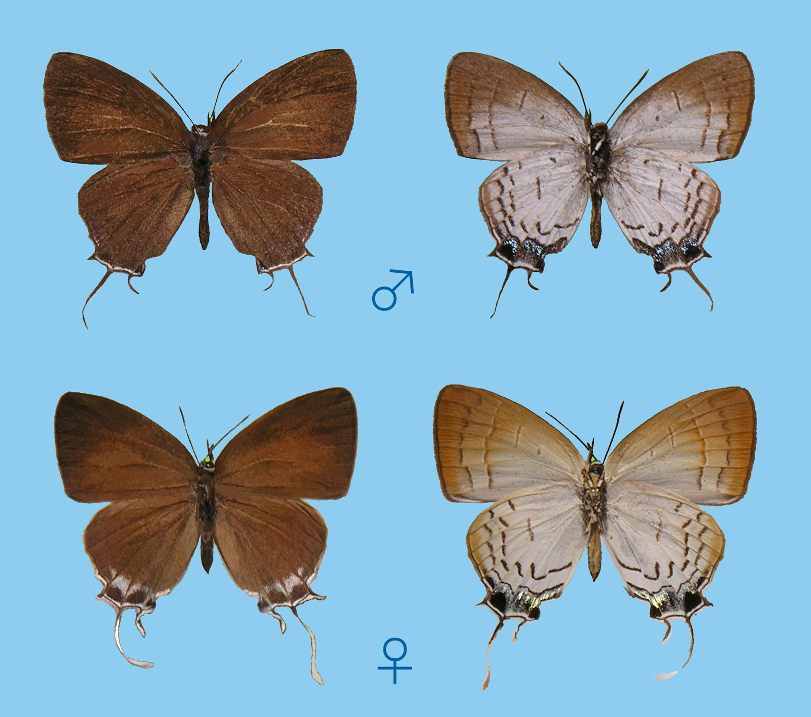 Drupadia hayashii, male & female